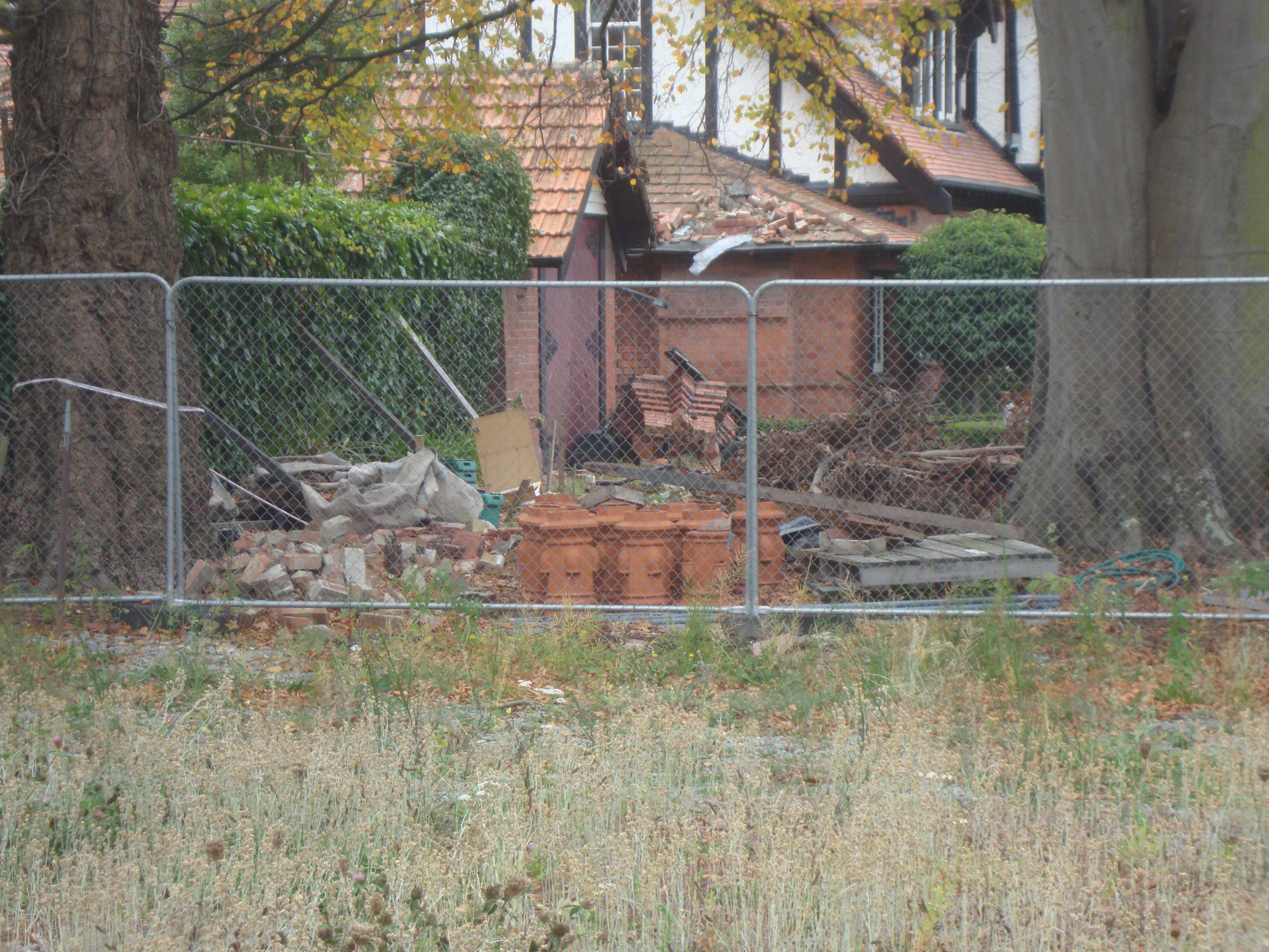 Daresbury as seen from Daresbury Lane.